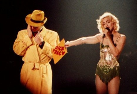 Photo taken during one of the concerts in 1990